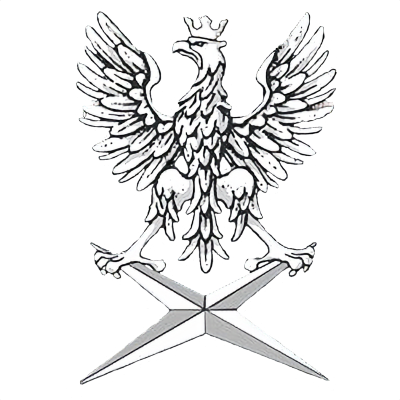 Logo of Intelligence Agency (AW), Poland